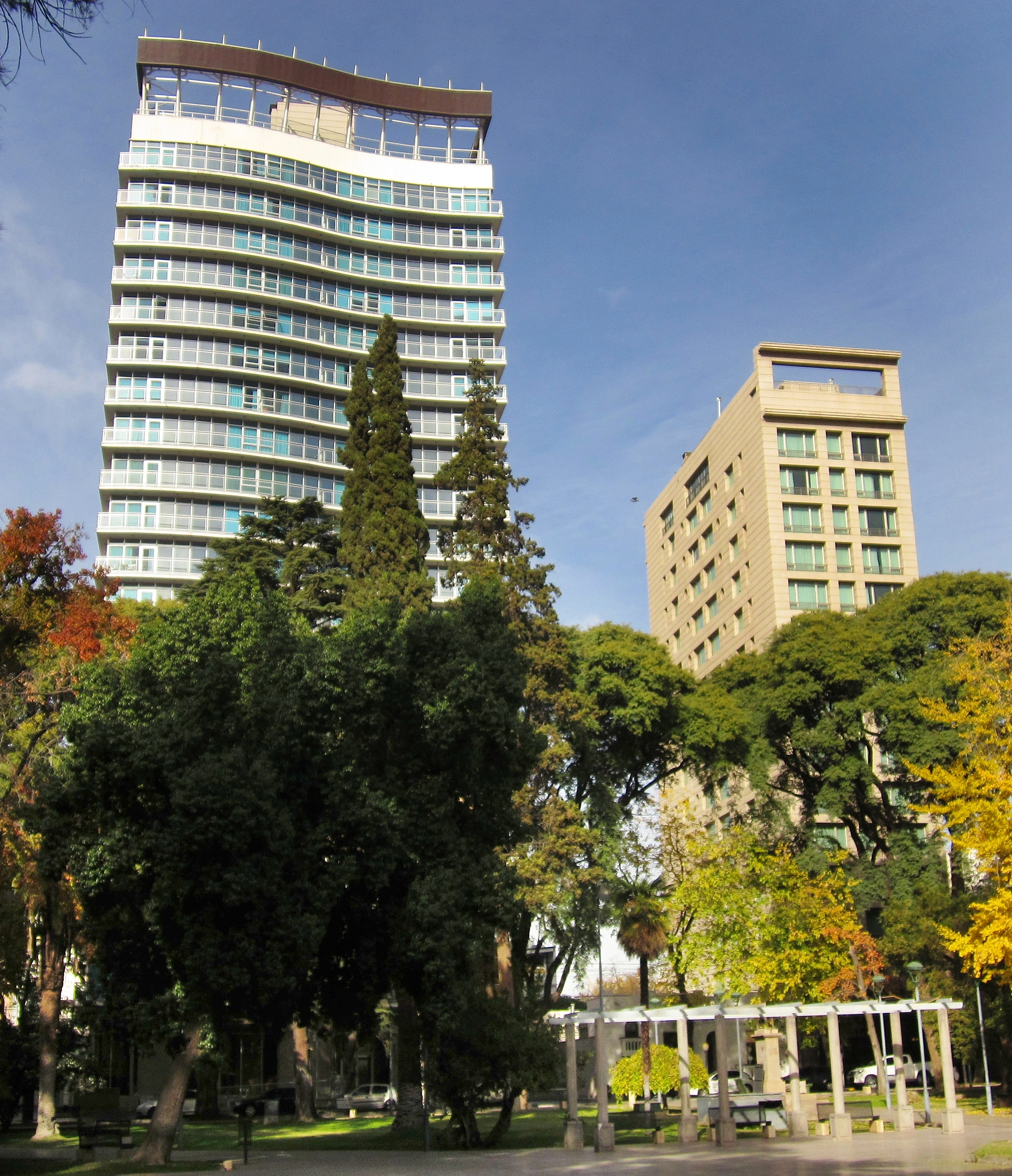 Da Vinci building (left), in Mendoza, Argentina. Considered one of the 1000 best architectural works of the Americas.